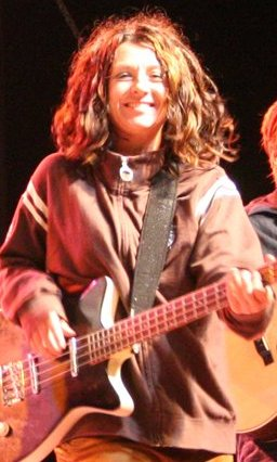 I walked all the way down in the freezing weather, only to not pay enough attention and mess up some settings on my camera. The pictures ended up too blurry, and this is the only one that was good at all. Moral of this story, check to make sure the pictures are good before you stop shooting, even if you are freezing to death.